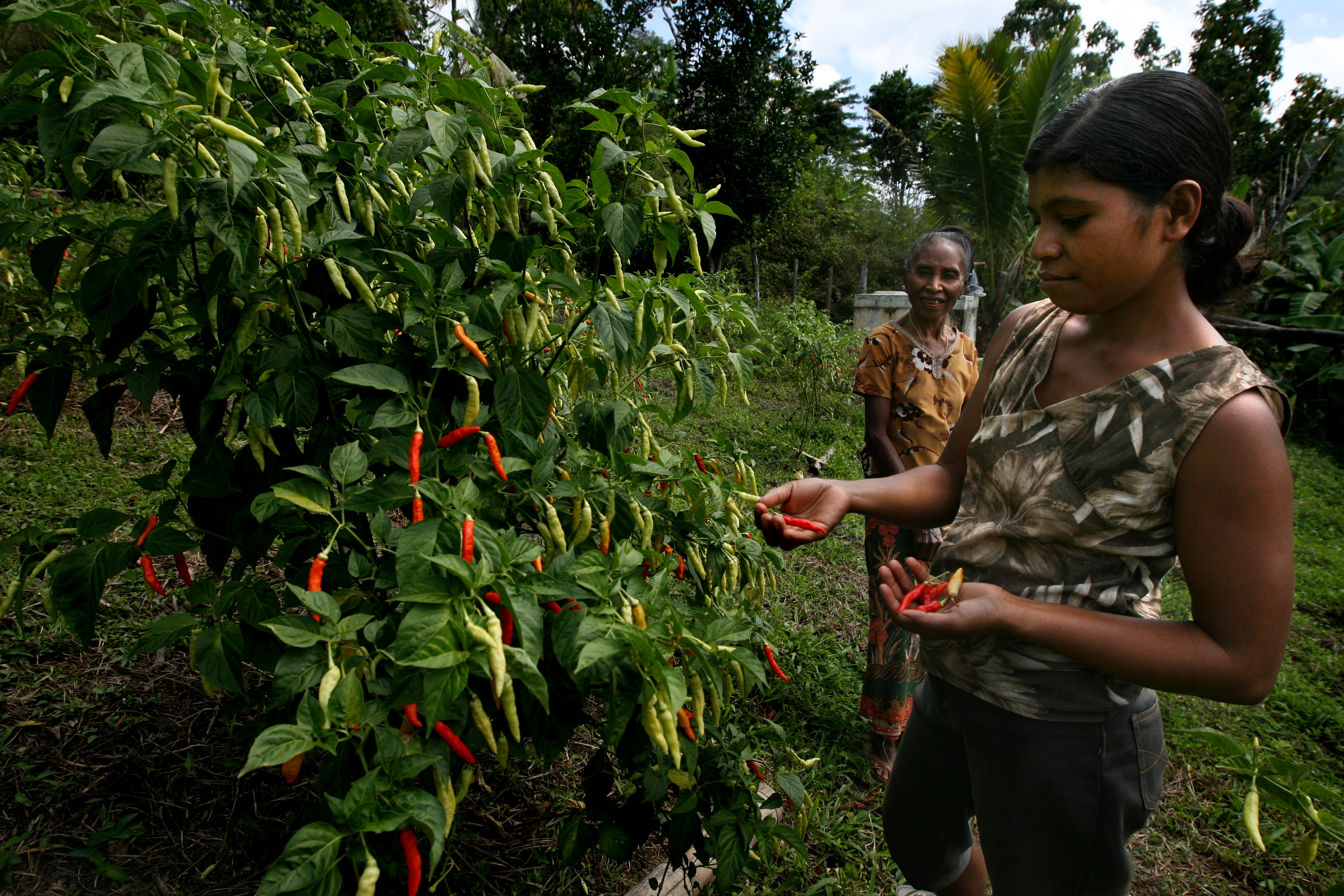 Antonio dos Santos in his home village of Lisadila, grows chillis, bananas and coffee and germinates plant stocks which he also uses as a source of additional income. Here, his wife Satumina harvests some of the produce.